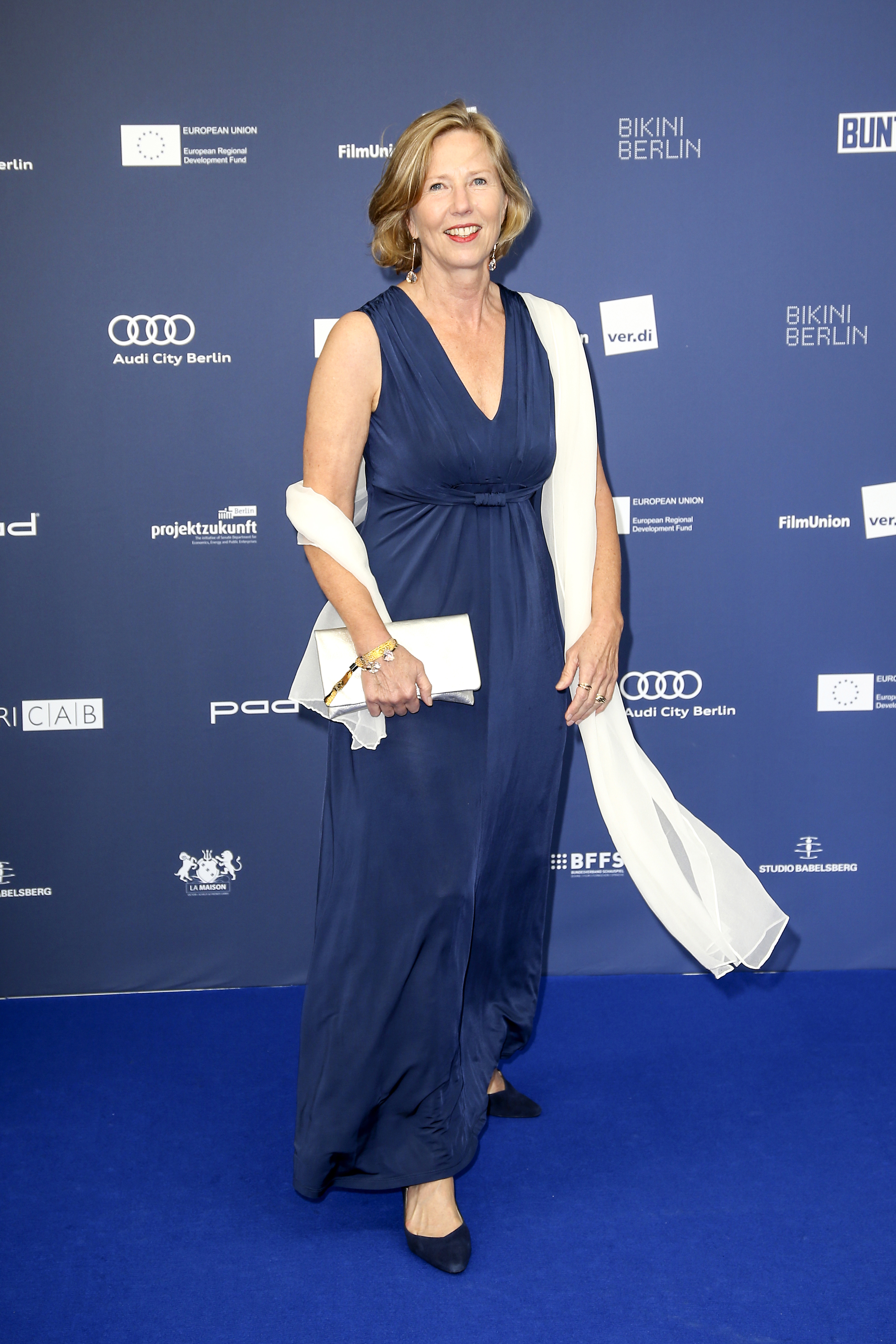 BERLIN, GERMANY - SEPTEMBER 13: German actress Petra Zieser at the award ceremony of the "Deutscher Schauspielpreis" at Zoo Palast on September 13, 2019 in Berlin, Germany. (Photo by Isa Foltin/Getty Images)